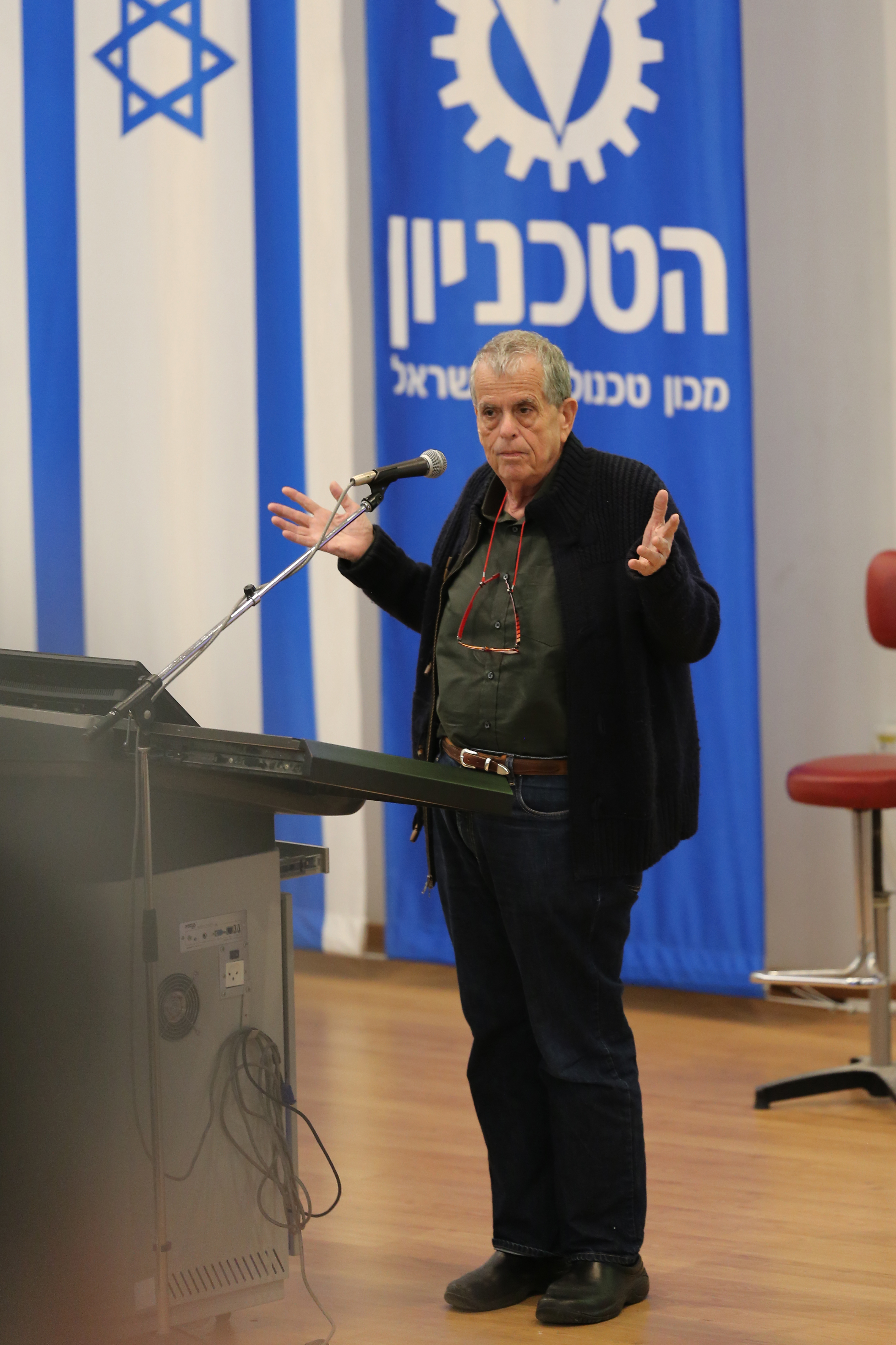 Prof. Aaron Ciechanover speaking at the Technion, Israel, February 2018.